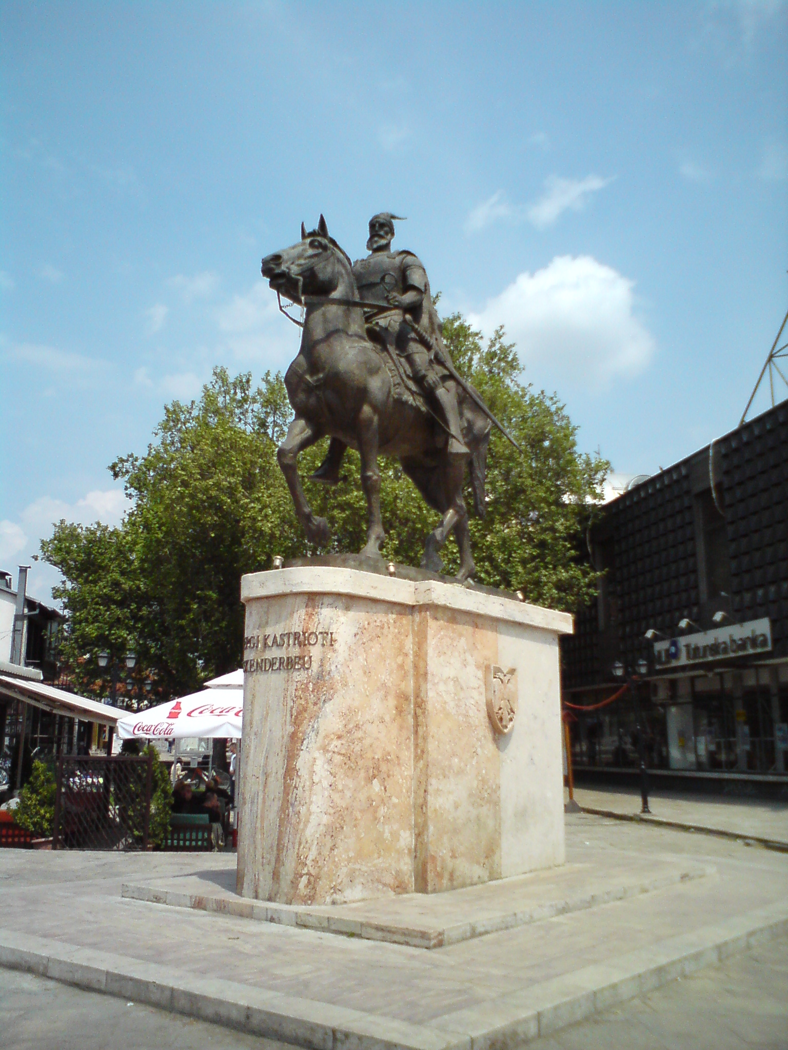 Statue of Skenderbeg